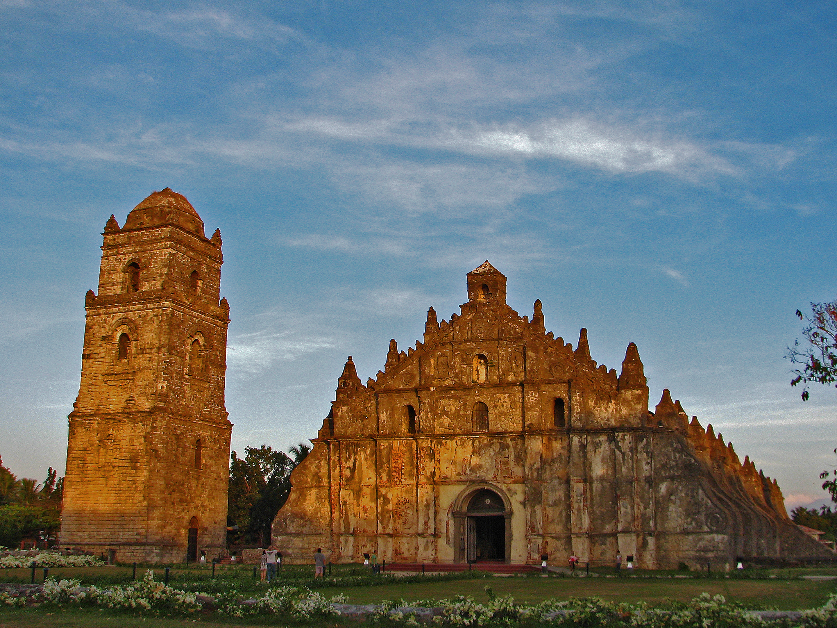 Also popularly known as Paoay Church, was declared by UNESCO as a world heritage site and is noted as one of the finest example of baroque architecture in the Philippines.